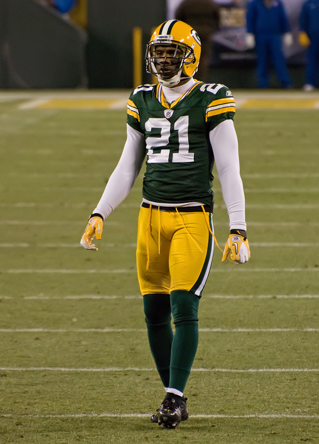 Chicago Bears vs. Green Bay Packers at Lambeau Field on December 25, 2011. Photo by Mike Morbeck.